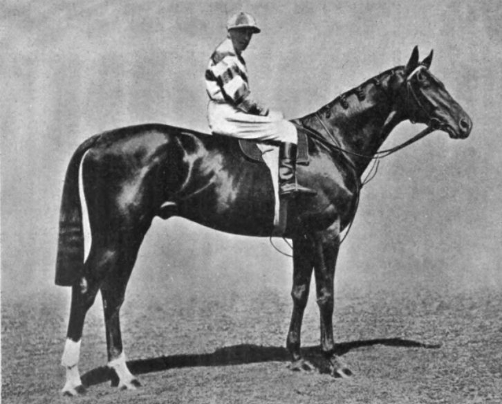 Irish Elegance, winner of the 1919 Royal Hunt Cup.